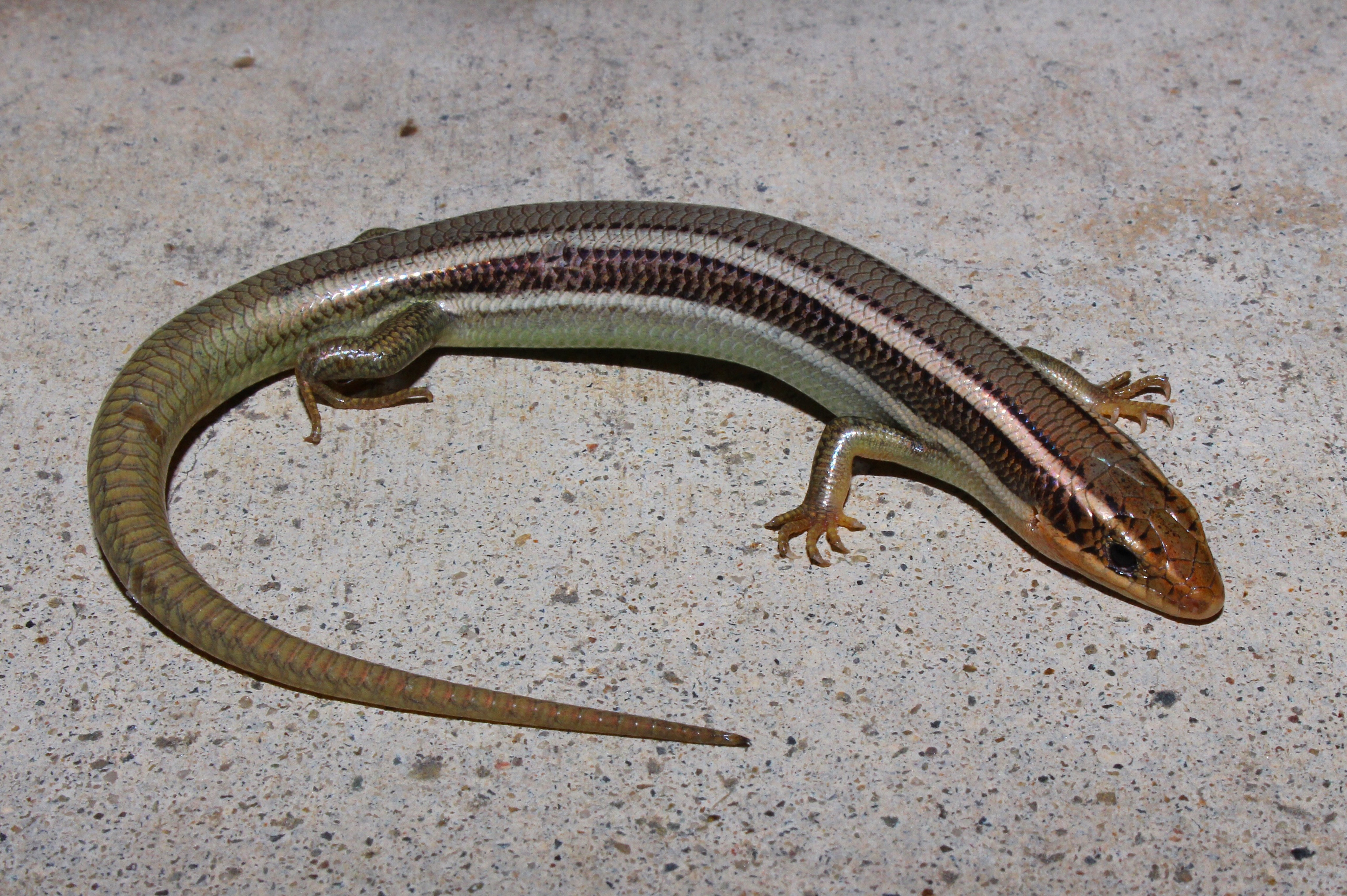 An adult Western skink (Plestiodon skiltonianus) from Sacramento County, California, USA.